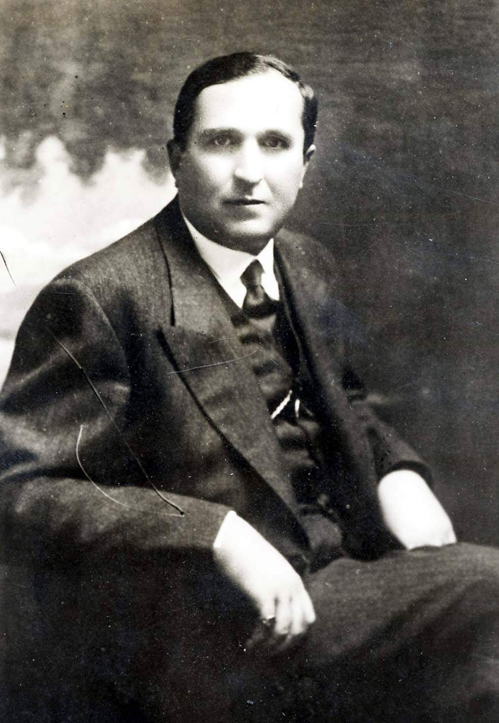 Image of Kostaq Kotta, former Prime Minister of Albania.